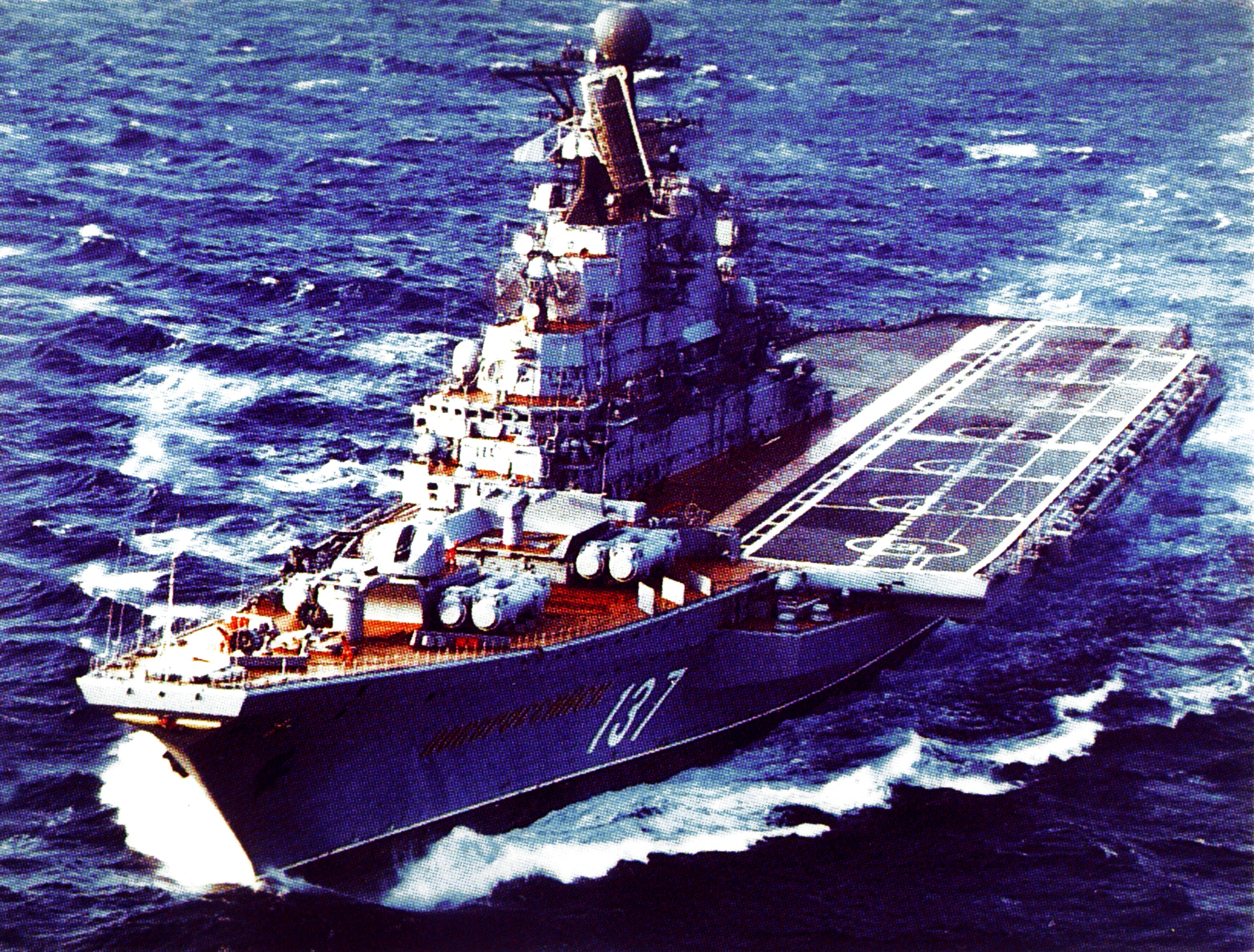 An elevated port bow view of a Soviet Kiev class aircraft carrier (CVHG) «Novorossiysk» underway.